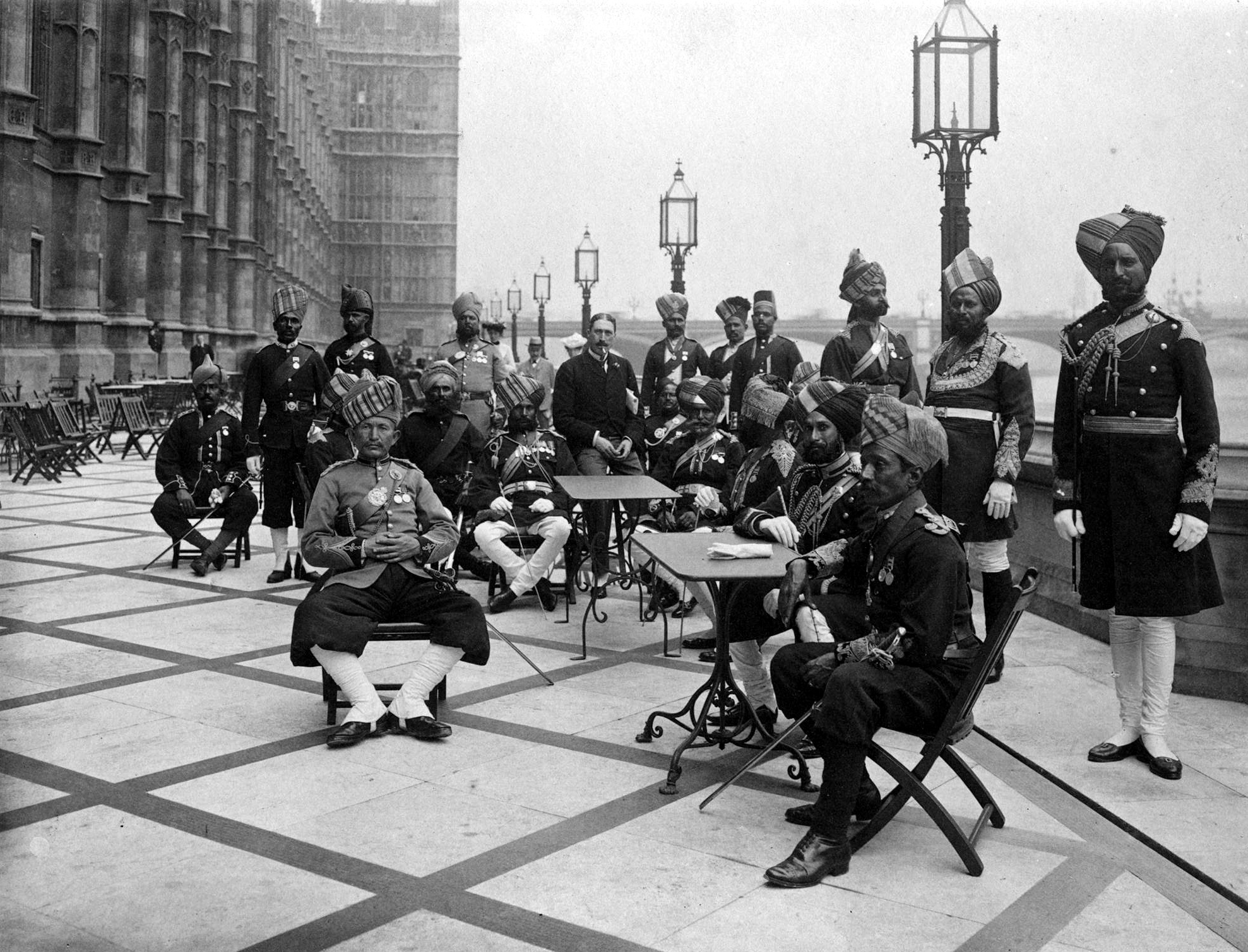 Indian Military Representatives Attending the Coronation of King Edward VII, by Sir (John) Benjamin Stone (died 1914), given to the National Portrait Gallery, London in 1974. All images in this batch have been confirmed as author died before 1939 according to the official death date listed by the NPG.